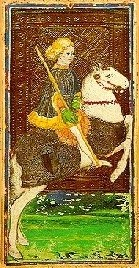 Knight of Clubs. Pierpont-Morgan Bergamo Visconti-Sforza Deck, c. 1420 A.D.